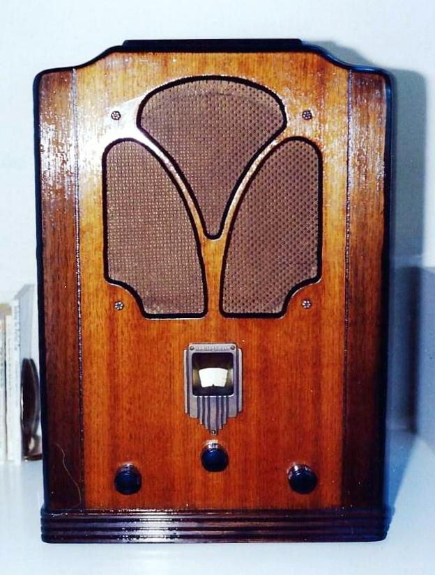 Radio Collection: Vintage Large Wood Westinghouse Tombstone Radio, Circa 1930s